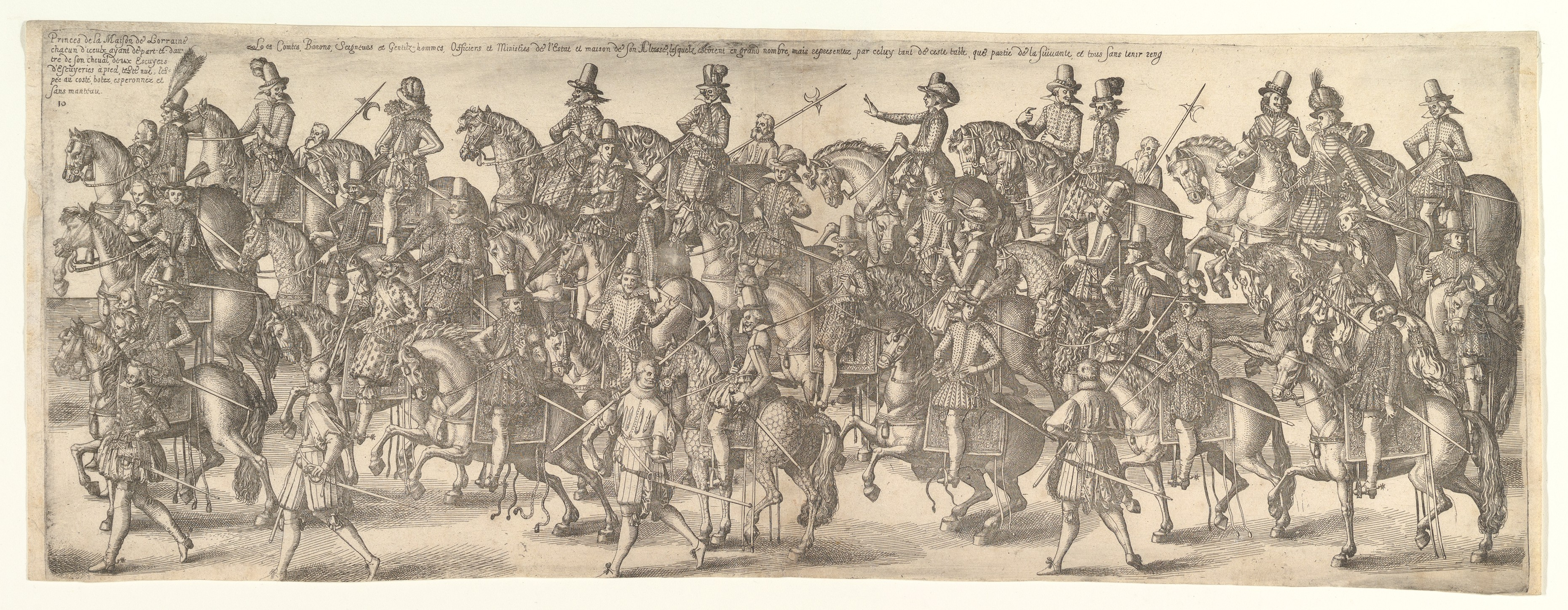 Print; Prints